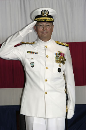 Onboard USS Theodore Roosevelt: Navy Admiral Edmund P. Giambastiani, Jr., NATO Supreme Allied Commander Transformation, and Commander, U.S. Joint Forces Command, salutes before relinquishing both commands in a ceremony here today.